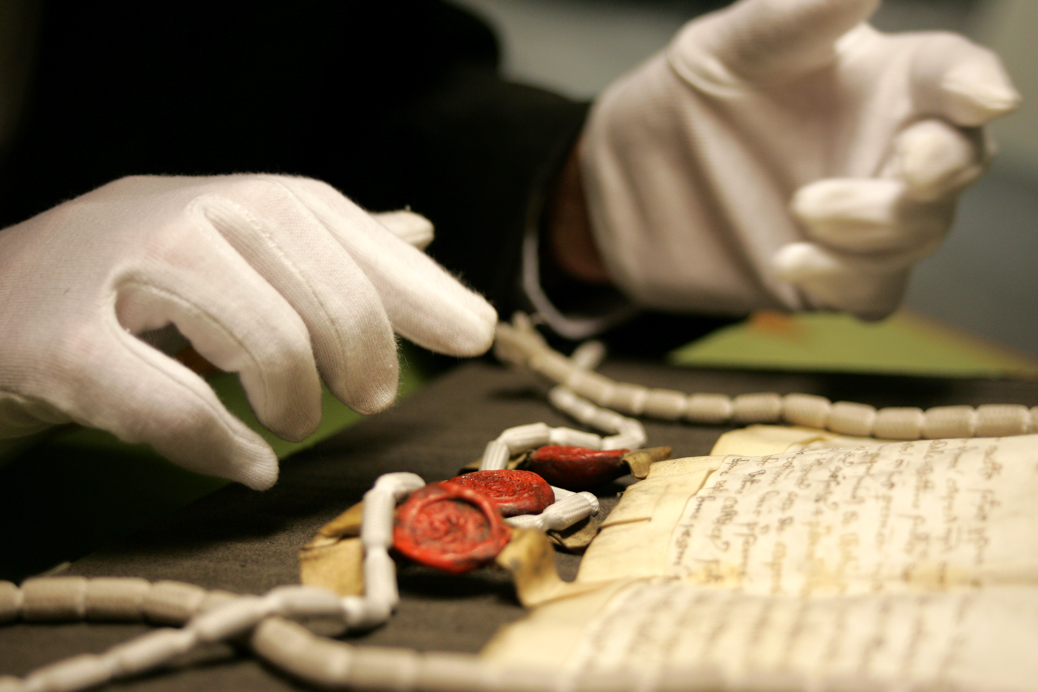 A gloved pair of hands at The National Archives